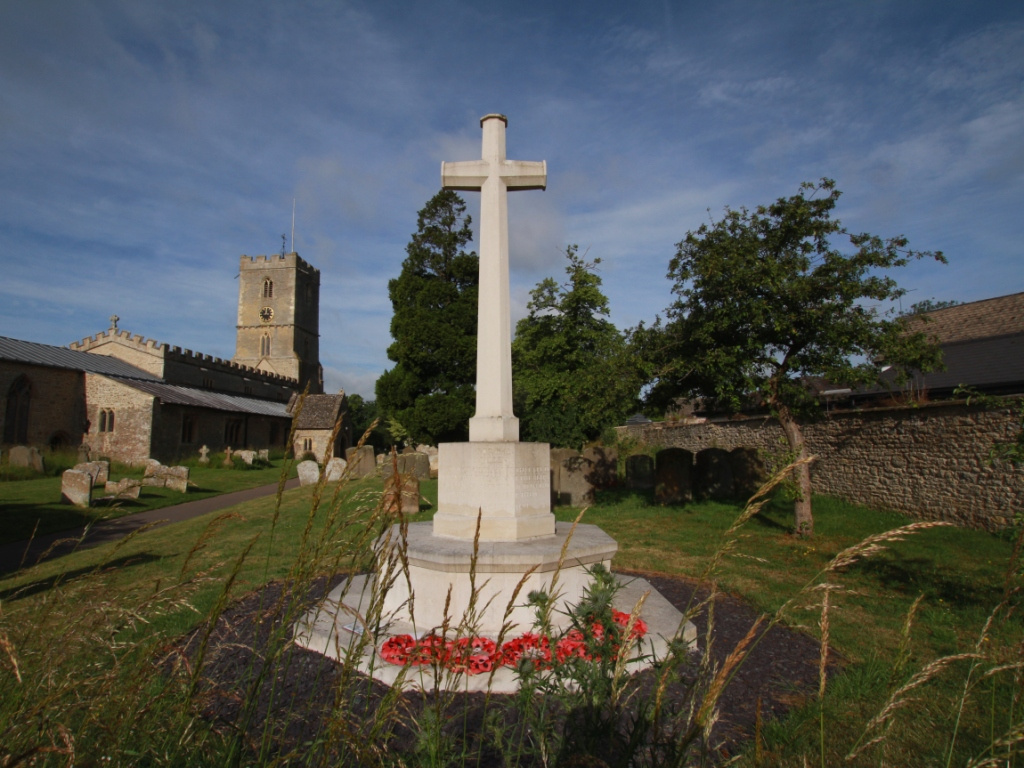 War memorial in St Deny's parish churchyard, Stanford in the Vale, Oxfordshire